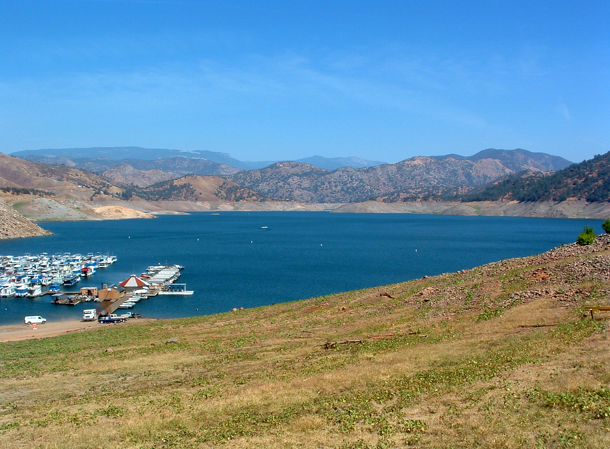 This is a picture of Pine Flat Lake, a lake in Fresno County, California, about 20 miles northeast of Fresno. The lake is formed by Pine Flat Dam on the Kings River. The marina can be seen on the left side. It was taken by me on September 11, 2003. I give permission for the picture to be used with attribution under the GFDL and Creative Commons.